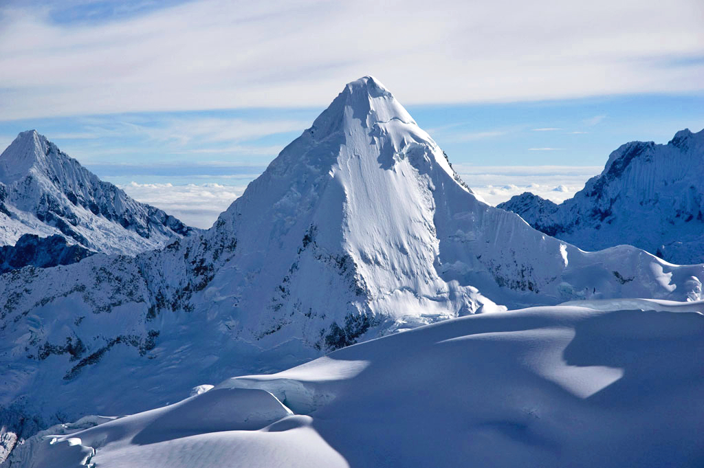 Artesonraju views from Nevado Pisco summit